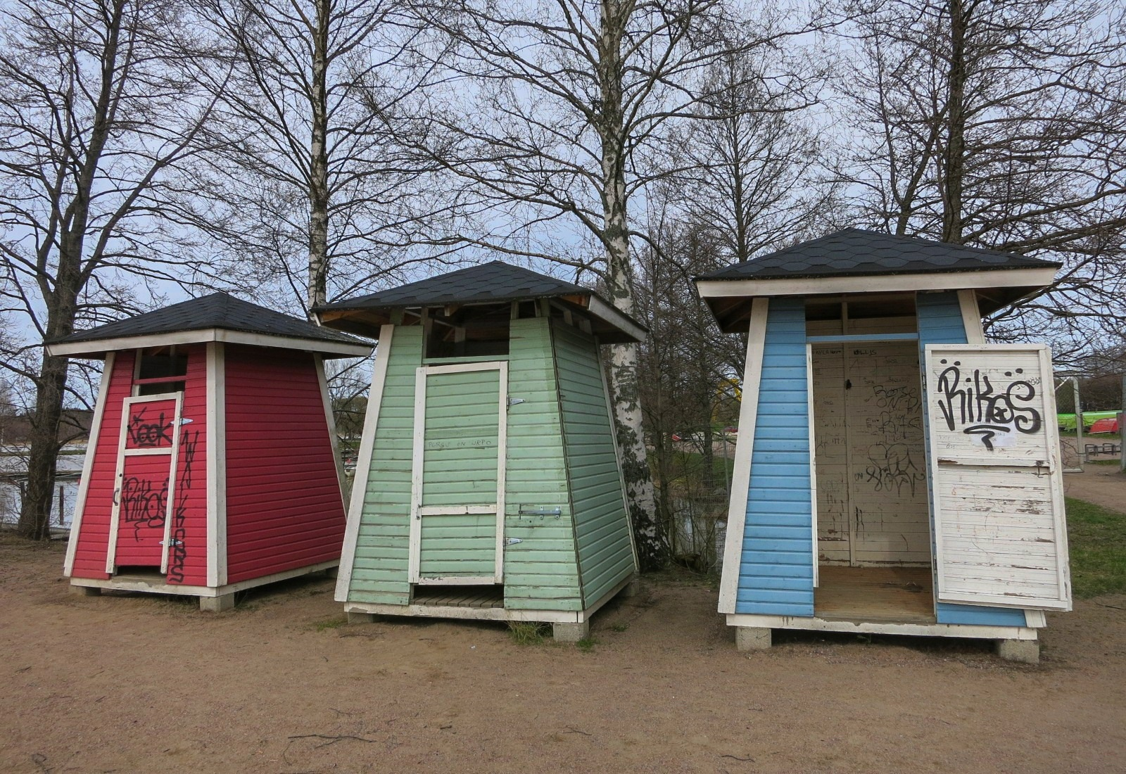 Changing cabins on Tervanokka beach of Lake Tuusula (Järvenpää, Uusimaa, Finland)